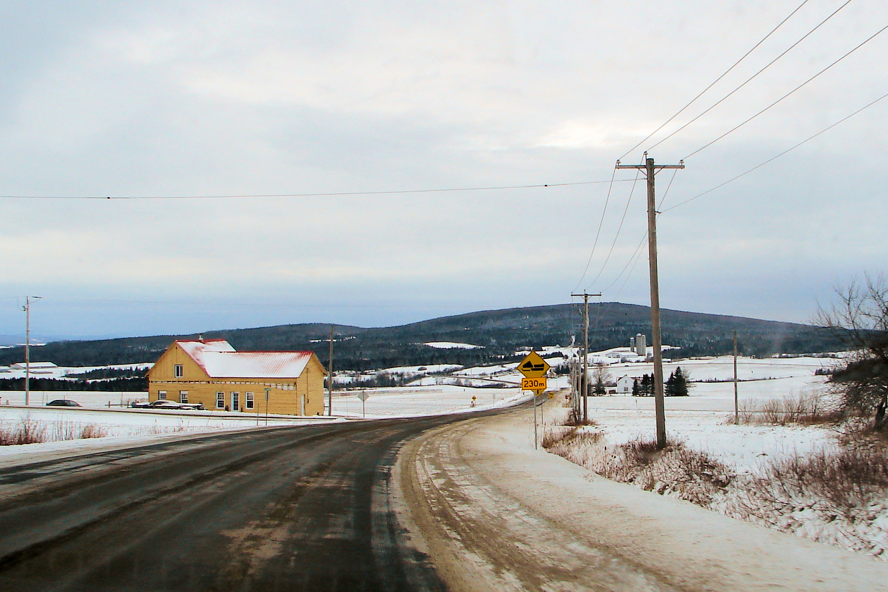 Route 141 and rural countryside at Saint-Herménégilde, Quebec, Canada